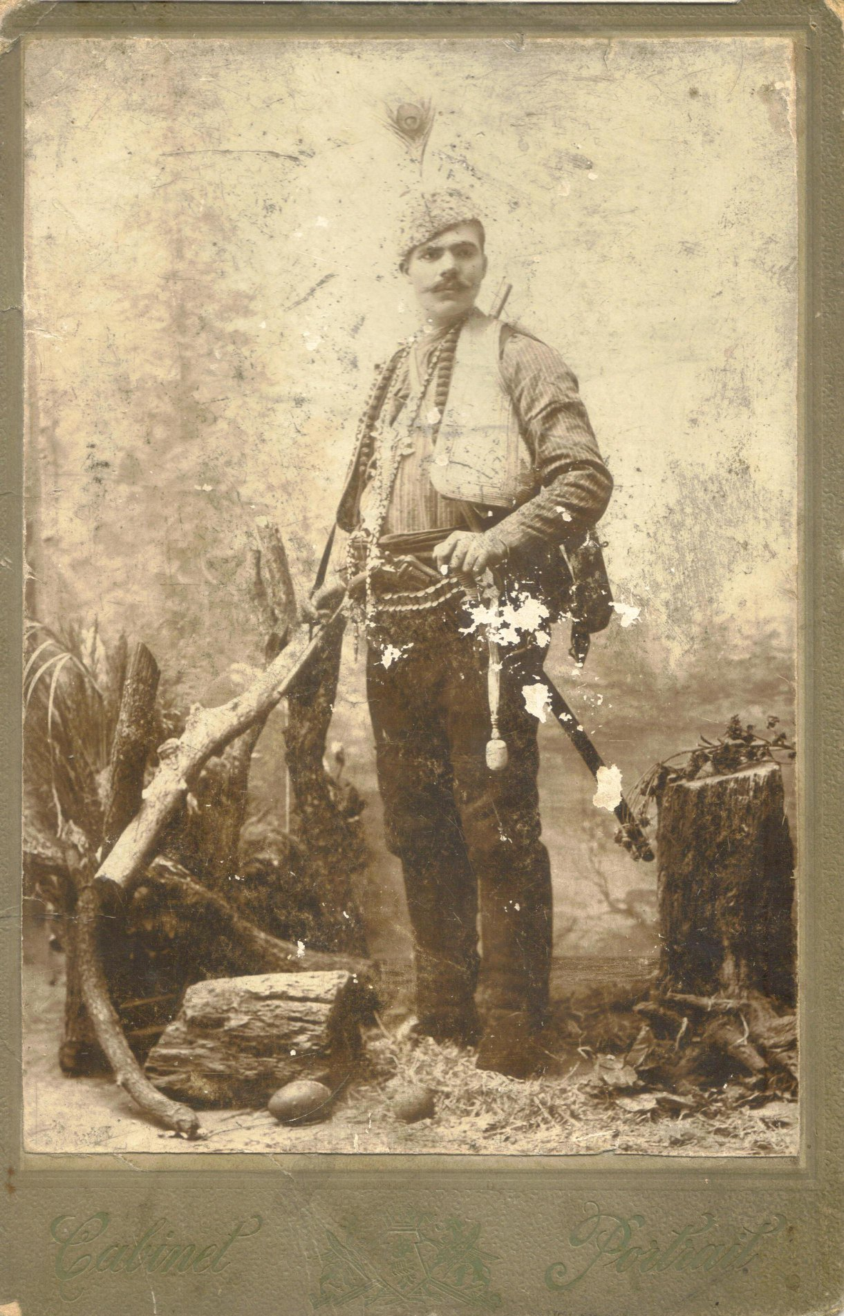 Portrait of IMARO member V.Dimitrov from Berovo